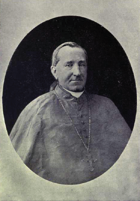 James Vincent Cleary Source: The Canadian album : men of Canada; or, Success by example, in religion, patriotism, business, law, medicine, education and agriculture; containing portraits of some of Canada's chief business men, statesmen, farmers, men of the learned professions, and others; also, an authentic sketch of their lives; object lessons for the present generation and examples to posterity (Volume 2) (1891-1896) Creator: Cochrane, William, 1831-1898 Creator: Hopkins, J. Castell (John Castell), 1864-1923 Publisher: Brantford, Ont. : Bradley, Garretson & Co. Date: 1891-1896